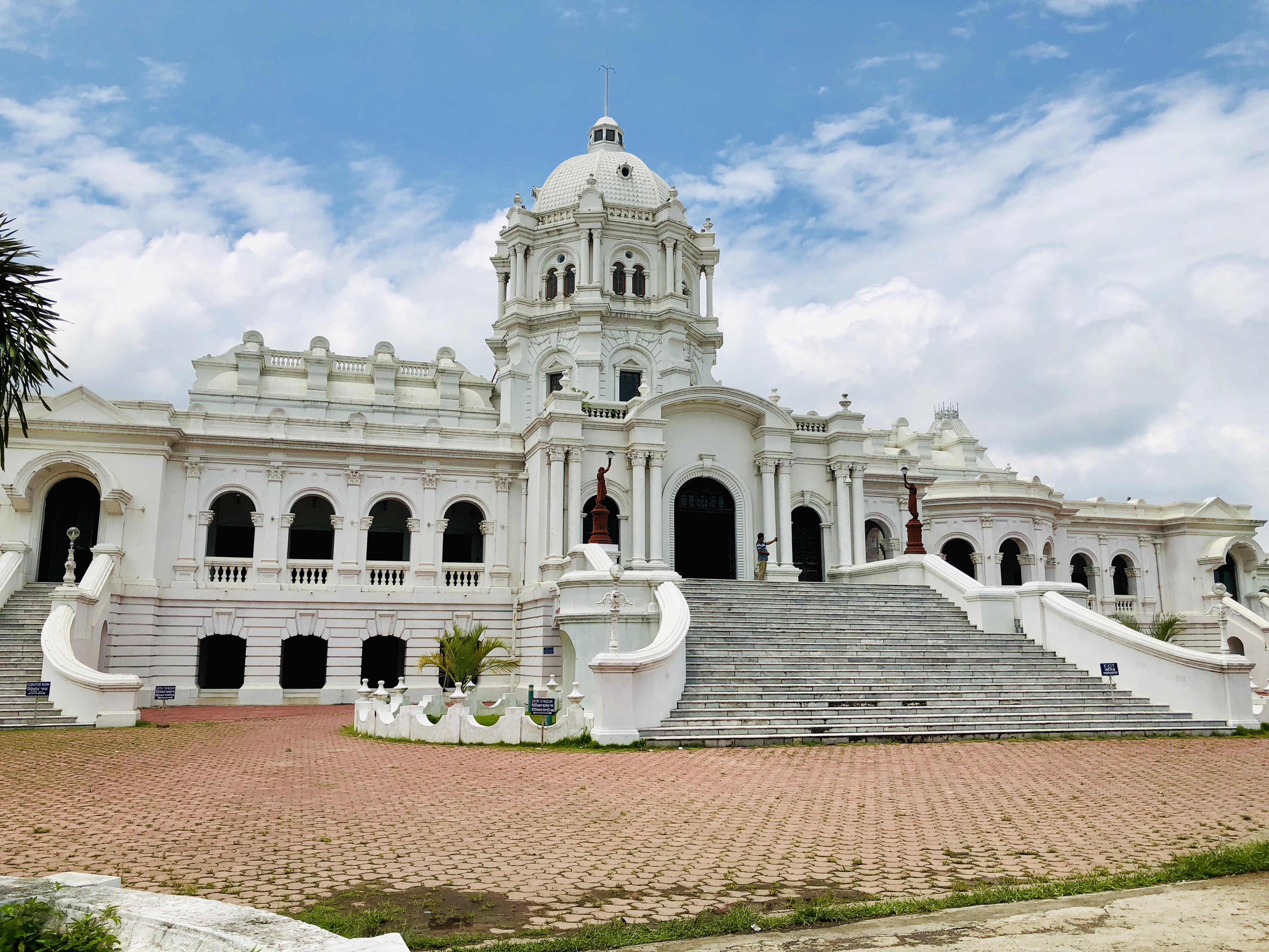 Built around a hundred years ago